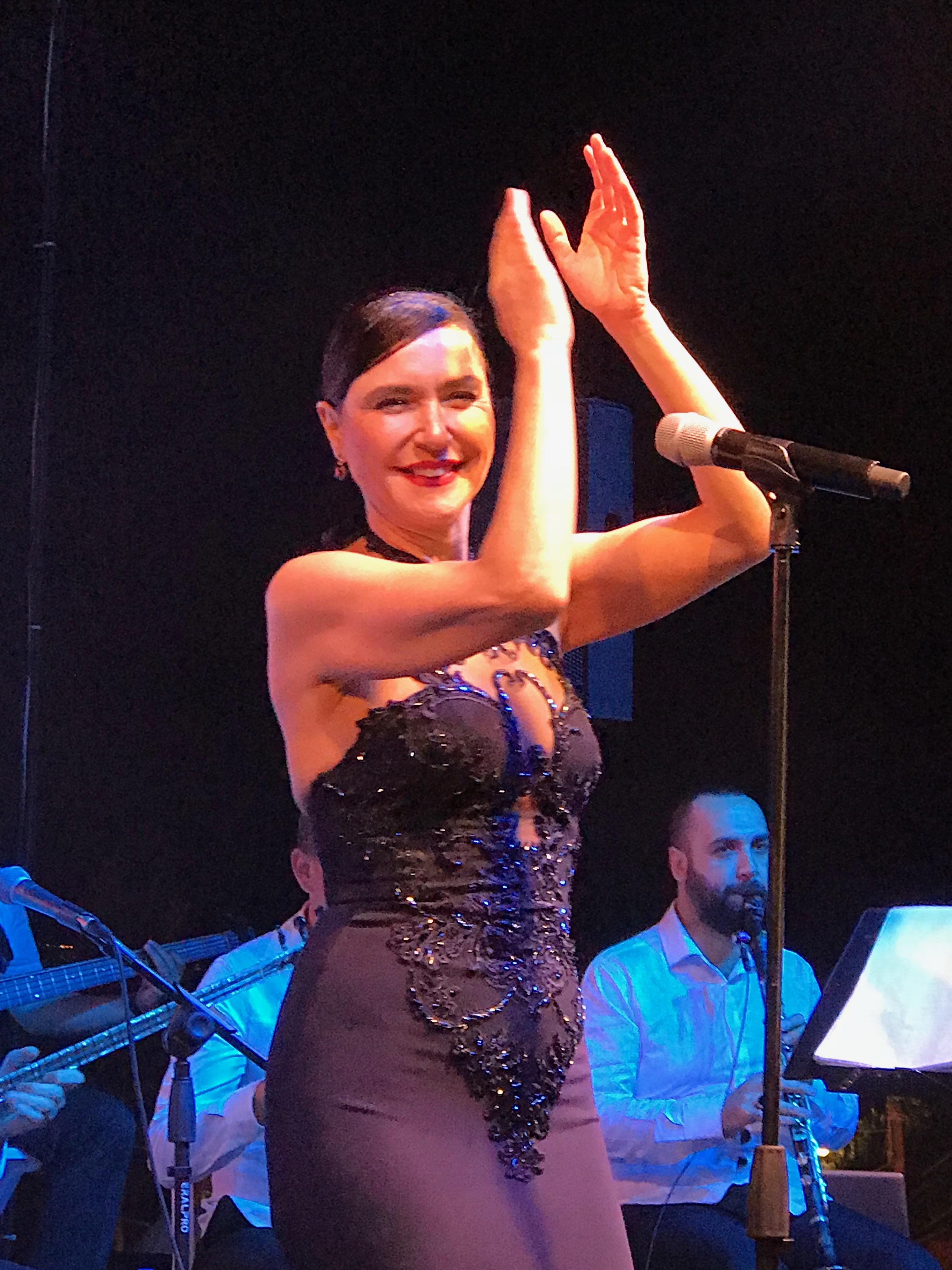 Şevval Sam performing in Çeşme, June 2018.